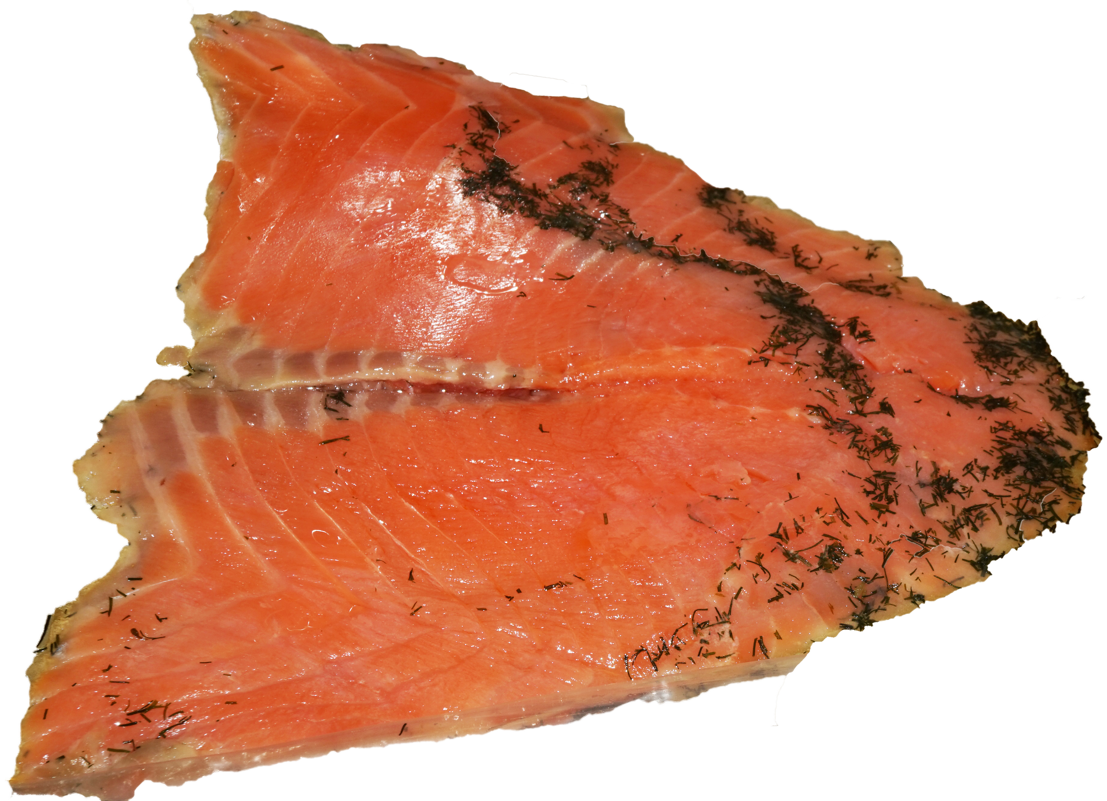 Gravlax.